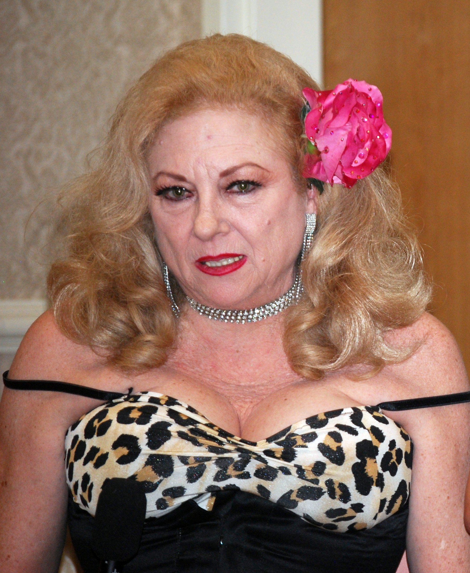 Burlesque dancer Satan's Angel at the Burlesque Hall of Fame, Miss Exotic World 2009, Las Vegas.